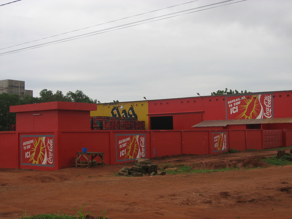 Bohicon, Benin